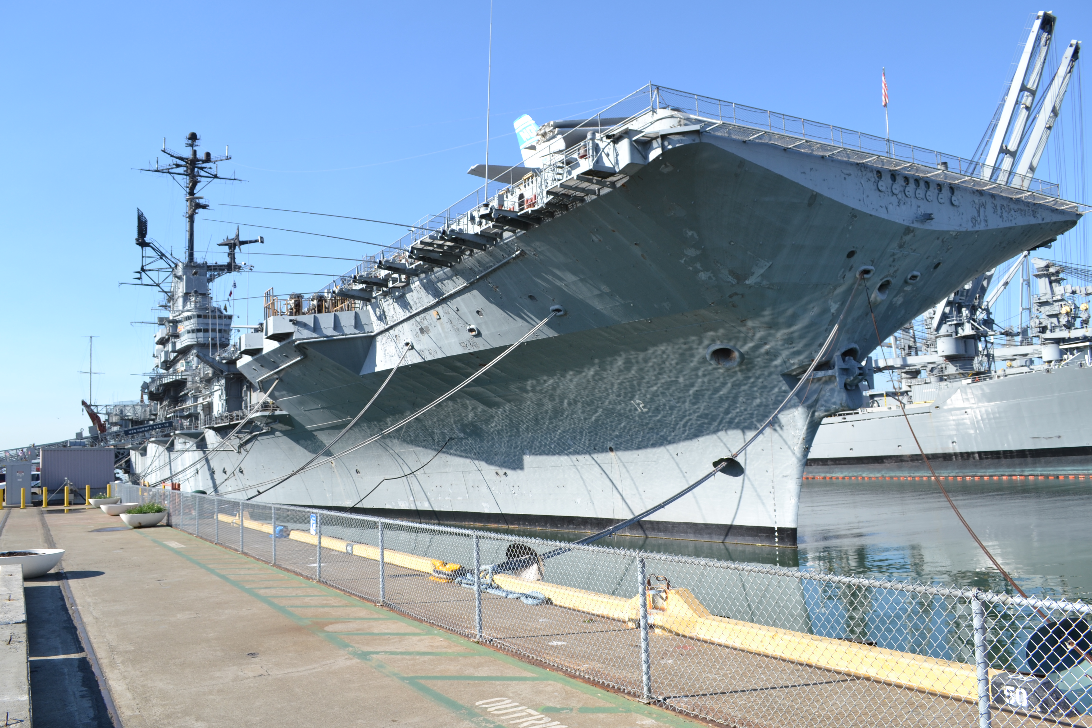 USS Hornet Museum